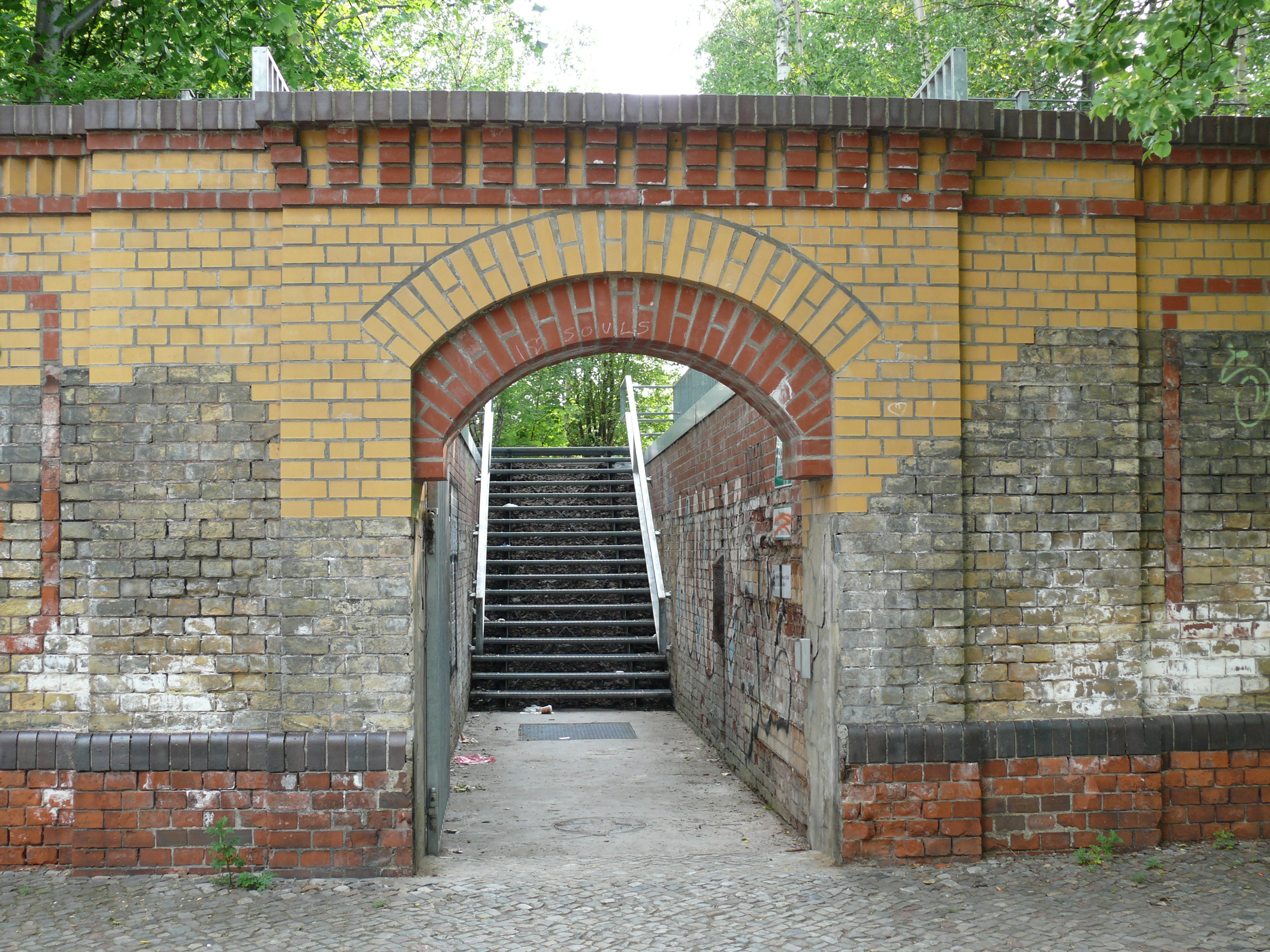 Park am Nordbahnhof Entrance at Gartenstraße